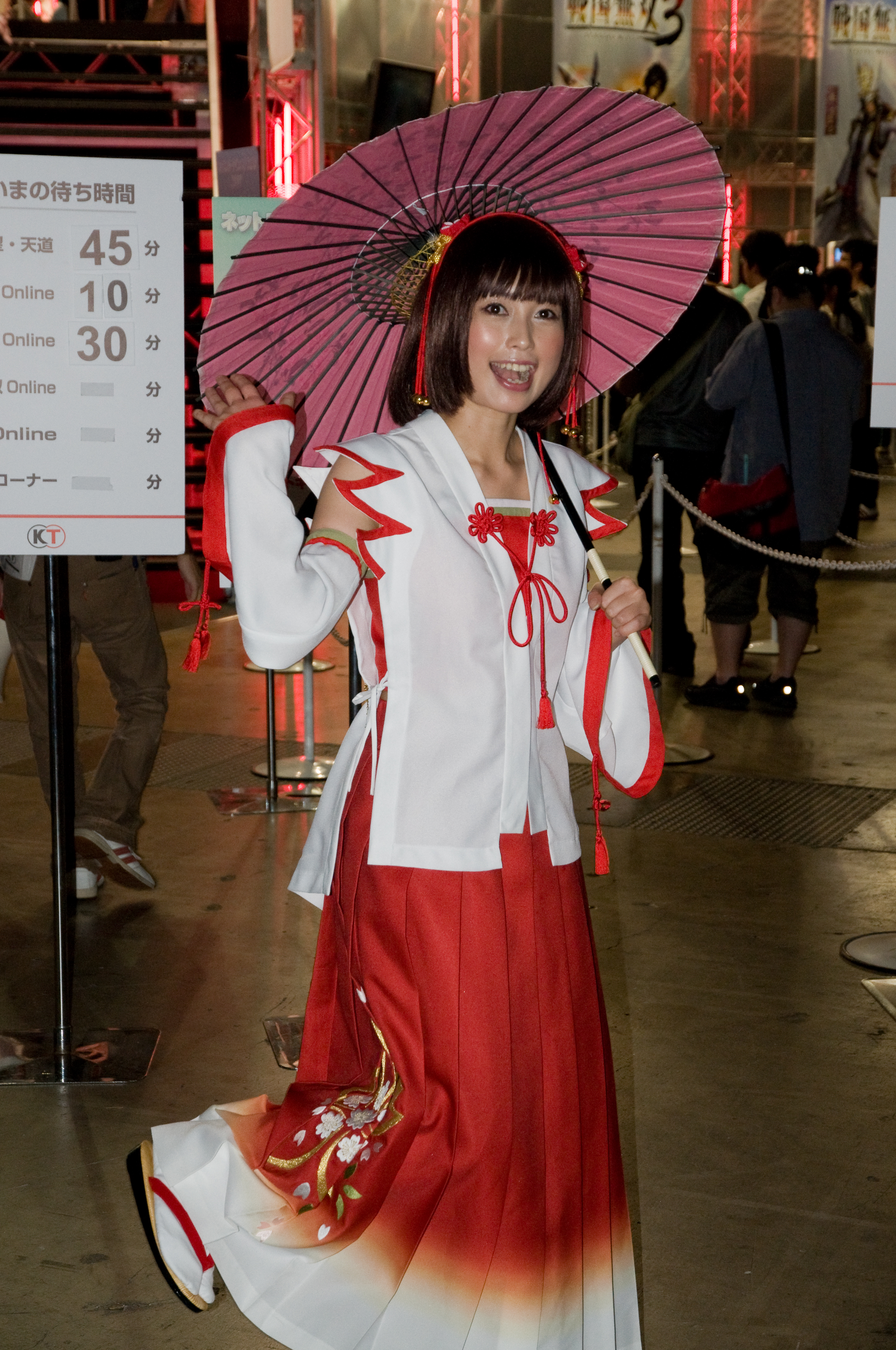 Girl cosplaying Okuni from the video game Samurai Warriors 3